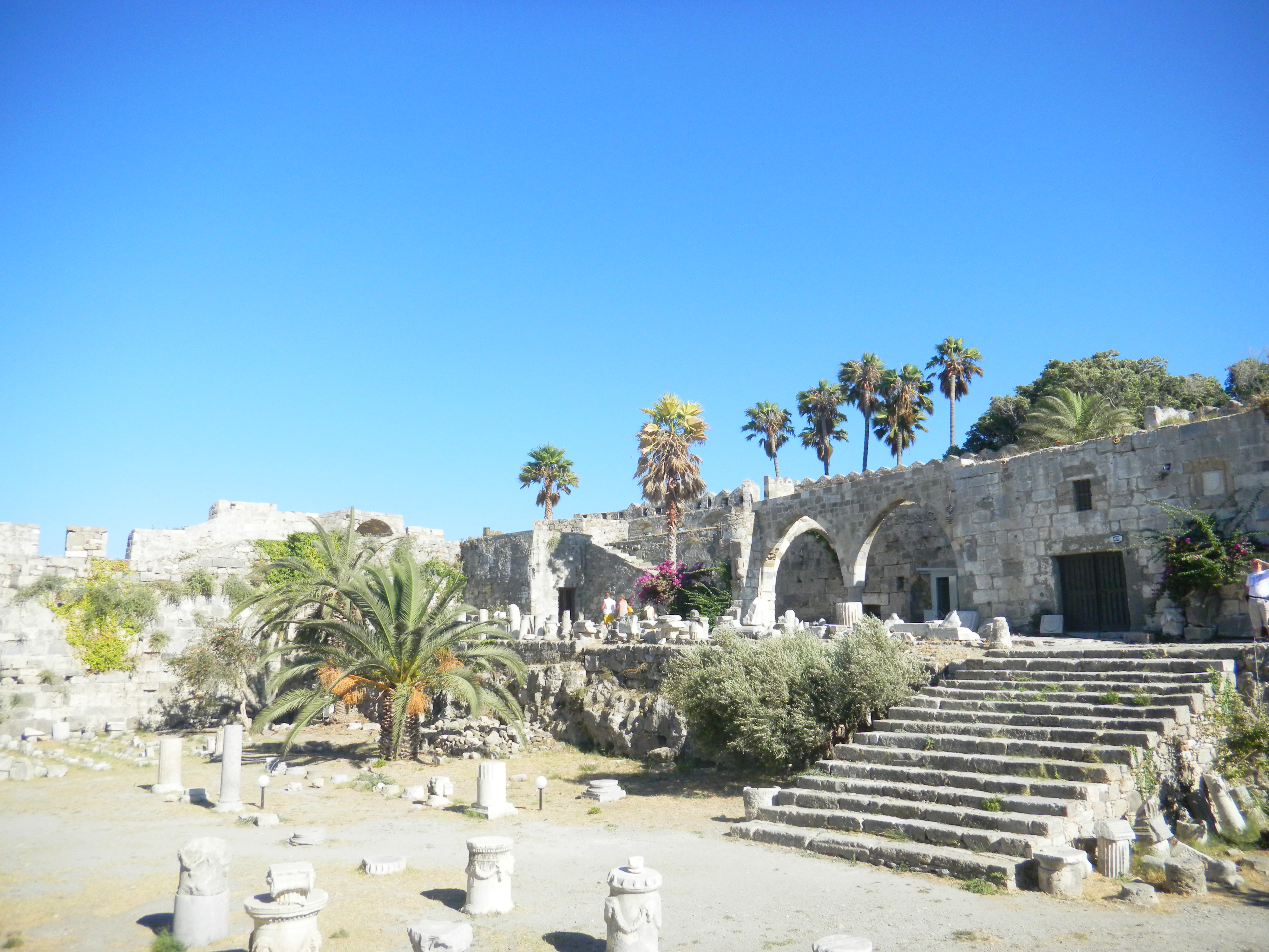 The inside of Neratzia Castle in Kos looking back towards the entrance.